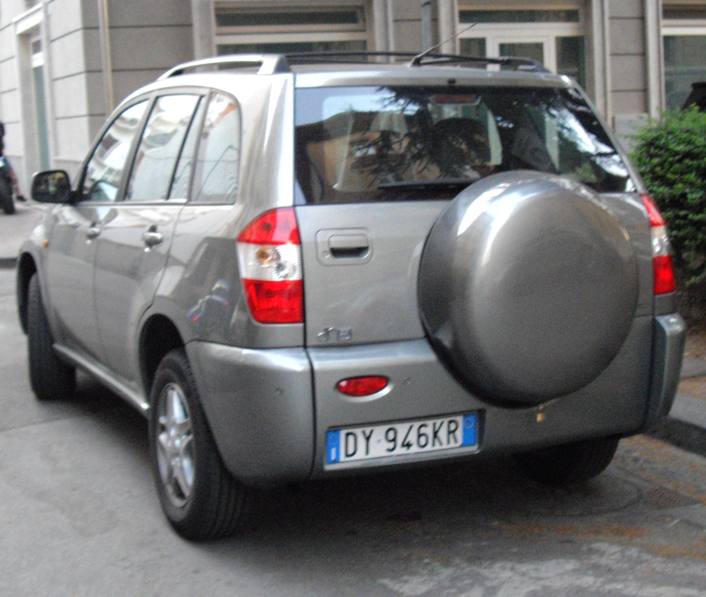 DR5 rear view